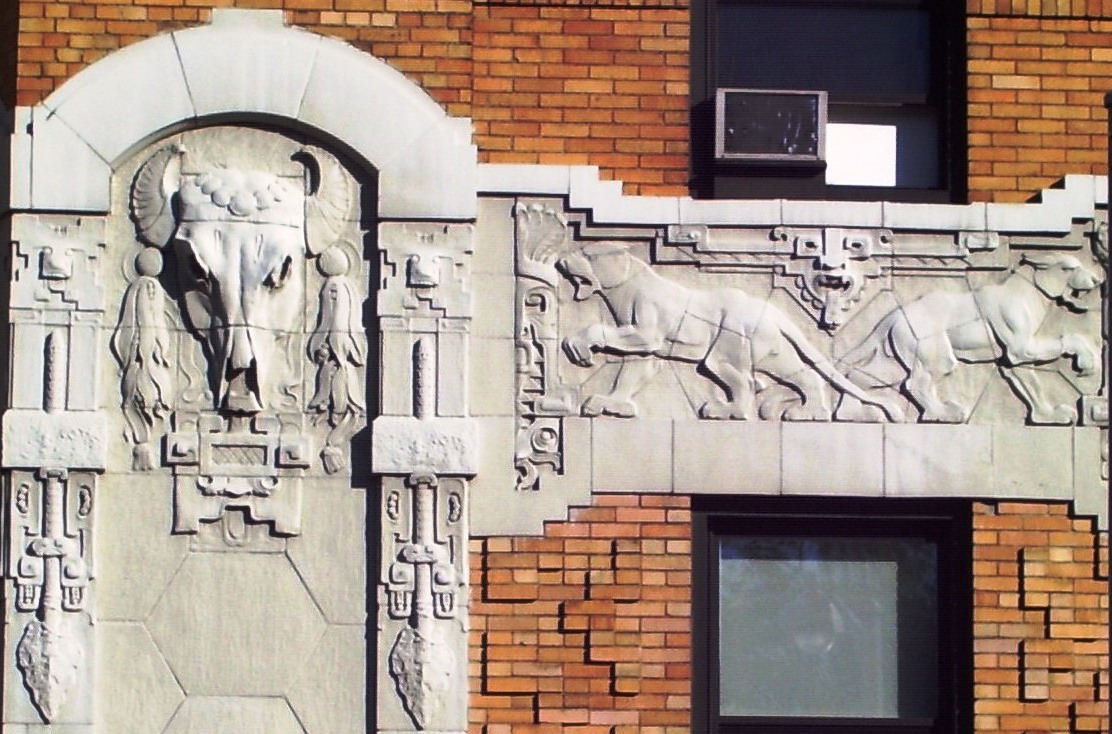 The Cliff Dwelling at 243 Riverside Drive (or 337 West 96th Street) on the corner of West 96th Street in the Upper West Side of Manhattan, New York City, was built in 1914 and was designed by Herman Lee Meader. The facade features a frieze with mountain lines, rattlesnakes and buffalo skulls. (Source: AIA Guide to NYC (4th ed.))